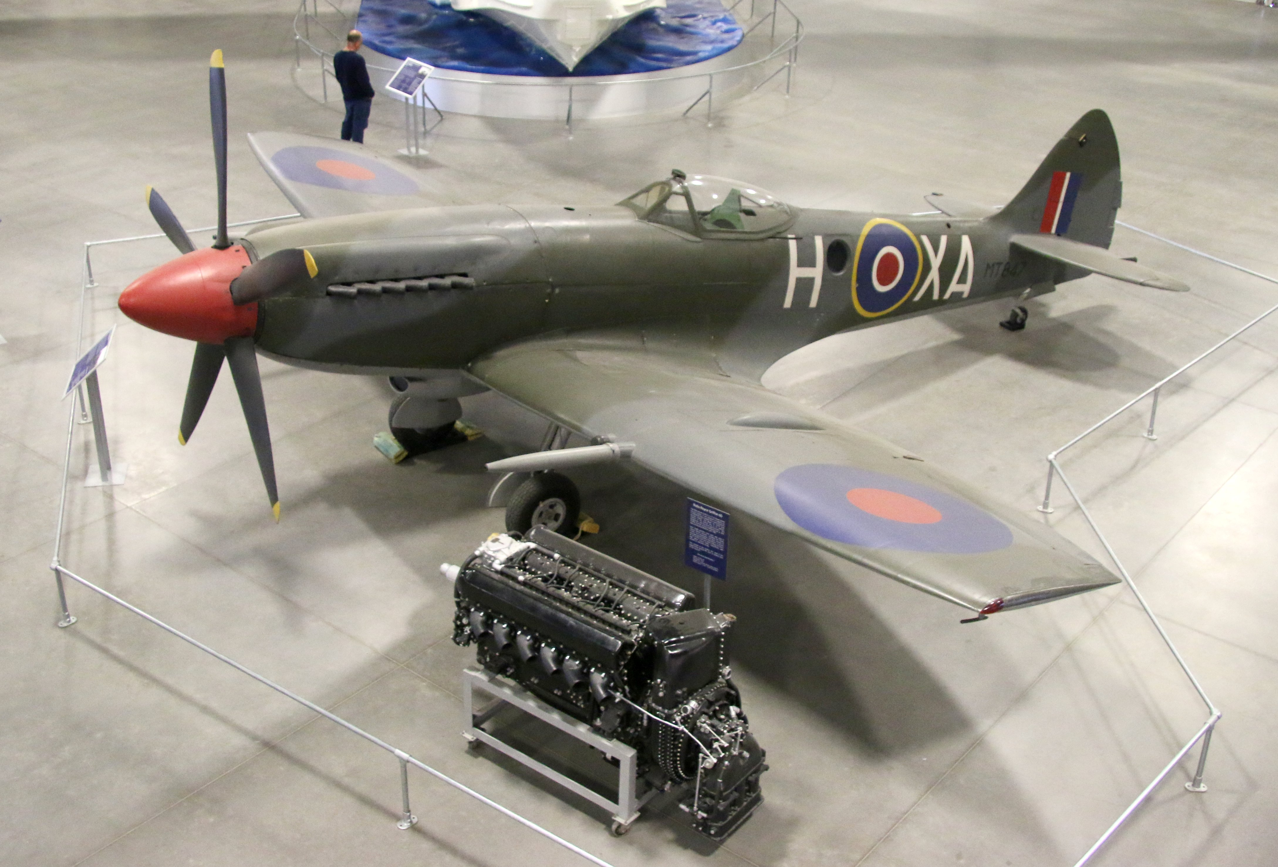 Back in January, I was able to visit the amazing Pima Air & Space Museum in Tucson, Arizona. This fabulous collection contains nearly 300 aircraft from the very smallest Bedejet to the largest B52 Stratofortess. I will post some more in due course.